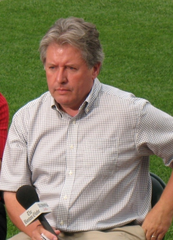 Gorden Edes in Camden Yards in Baltimore.